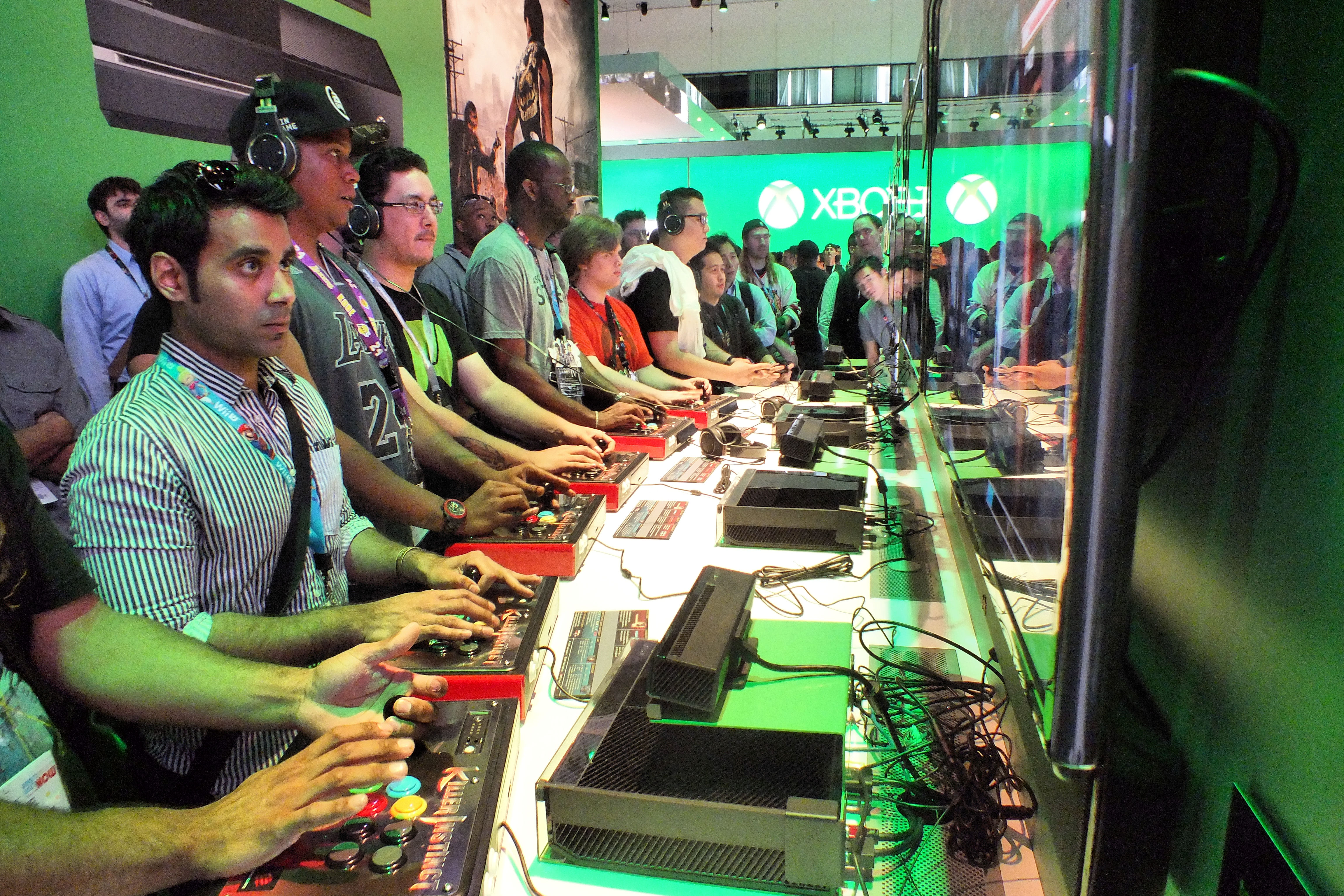 Taken on June 12, 2013 Dowtown Carrier Annex, Los Angeles, CA, US Fujifilm FinePix HS20EXR